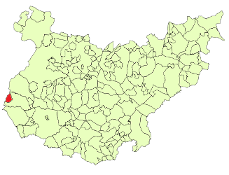 Cheles, spanish municipality in the province of Badajoz, Extremadura.